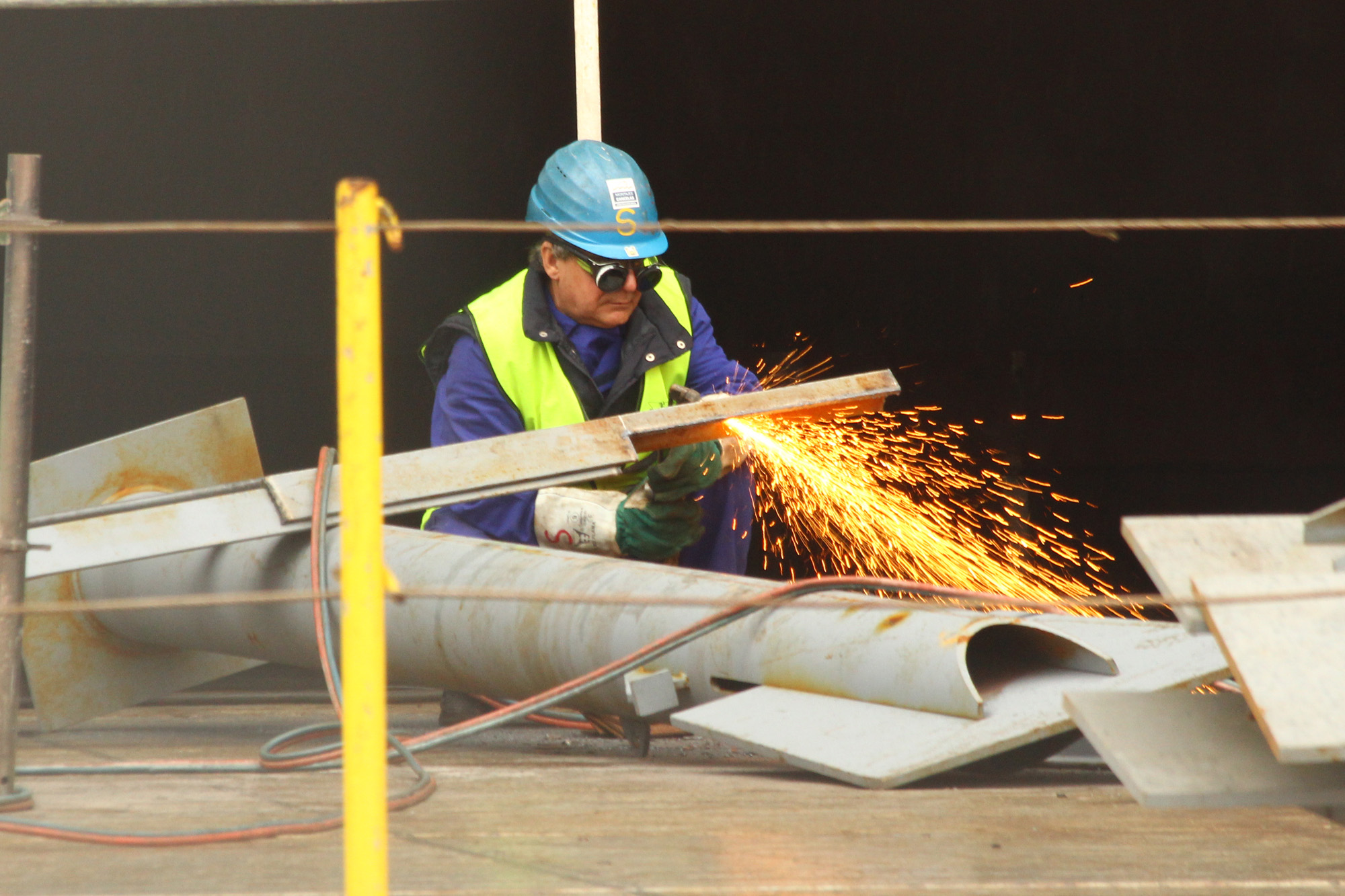 Trabajos para soldar el portaaviones HMAS Adelaide de la Real Armada Australiana sobre el buque-plataforma Blue Marlin, para trasladarlo a Australia y terminar su construcción. El Blue Marlin y su valiosa carga estarán amarrados en el muelle de transatlánticos de la Estación Marítima de Vigo hasta el 20 de diciembre, día en que zarparán hacia Australia. Vigo: Welding the aircraft carrier HMAS Adelaide of the Royal Australian Navy on the ship-platform Blue Marlin Work to weld the aircraft carrier HMAS Adelaide on ship-platform Blue Marlin, to move it to Australia and finish its construction. The Blue Marlin and its precious cargo will be moored at the pier liners of the Maritime Station of Vigo until 20 December, the day they set sail to Australia.